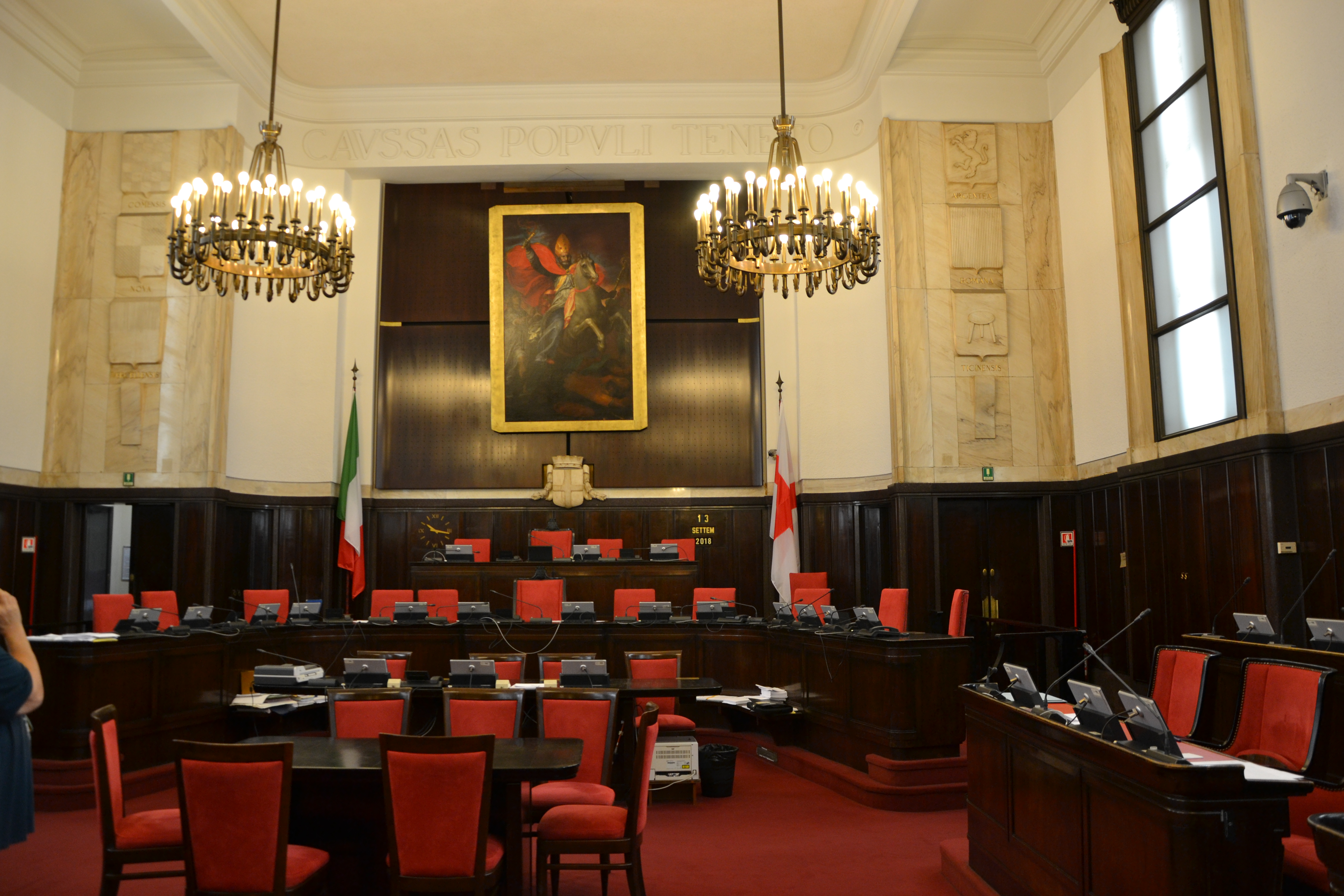 Palazzo Marino, Milano city Hall, City council room This is a photo of a monument which is part of cultural heritage of Italy.